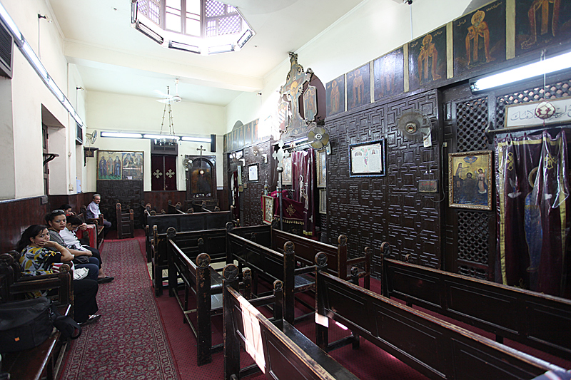 Inside the Church of St. Ruweis, el-'Abbasiya, Cairo, Egypt